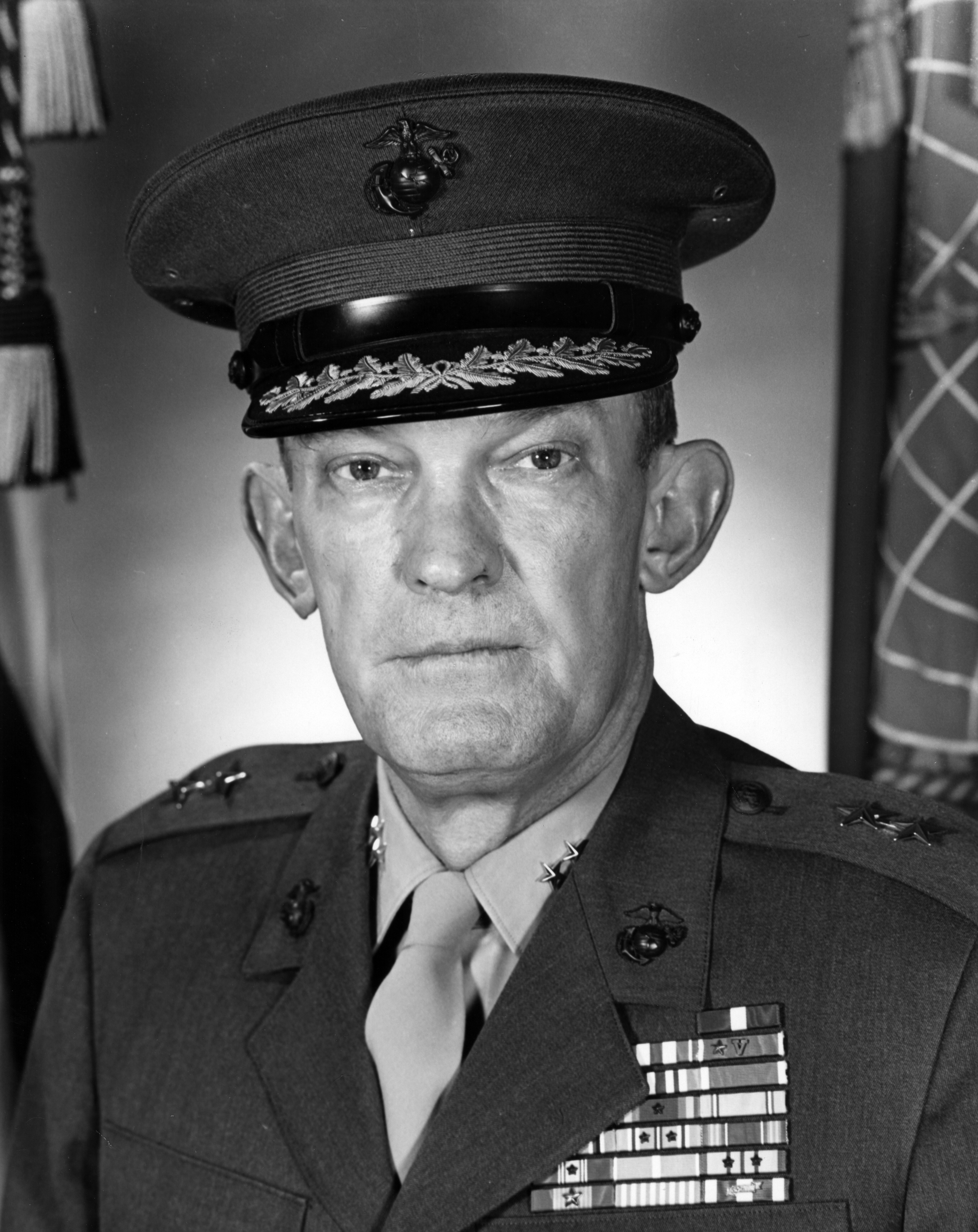 Charles Fred Widdecke (May 11, 1919 - May 13, 1973) was a highly decorated officer of the United States Marine Corps with the rank of Major General. Widdecke received Navy Cross, the United States military's second-highest decoration awarded for valor in combat, for his actions during the Recapture of Guam in July 1944. He later commanded 1st Marine Division at the end of Vietnam War.